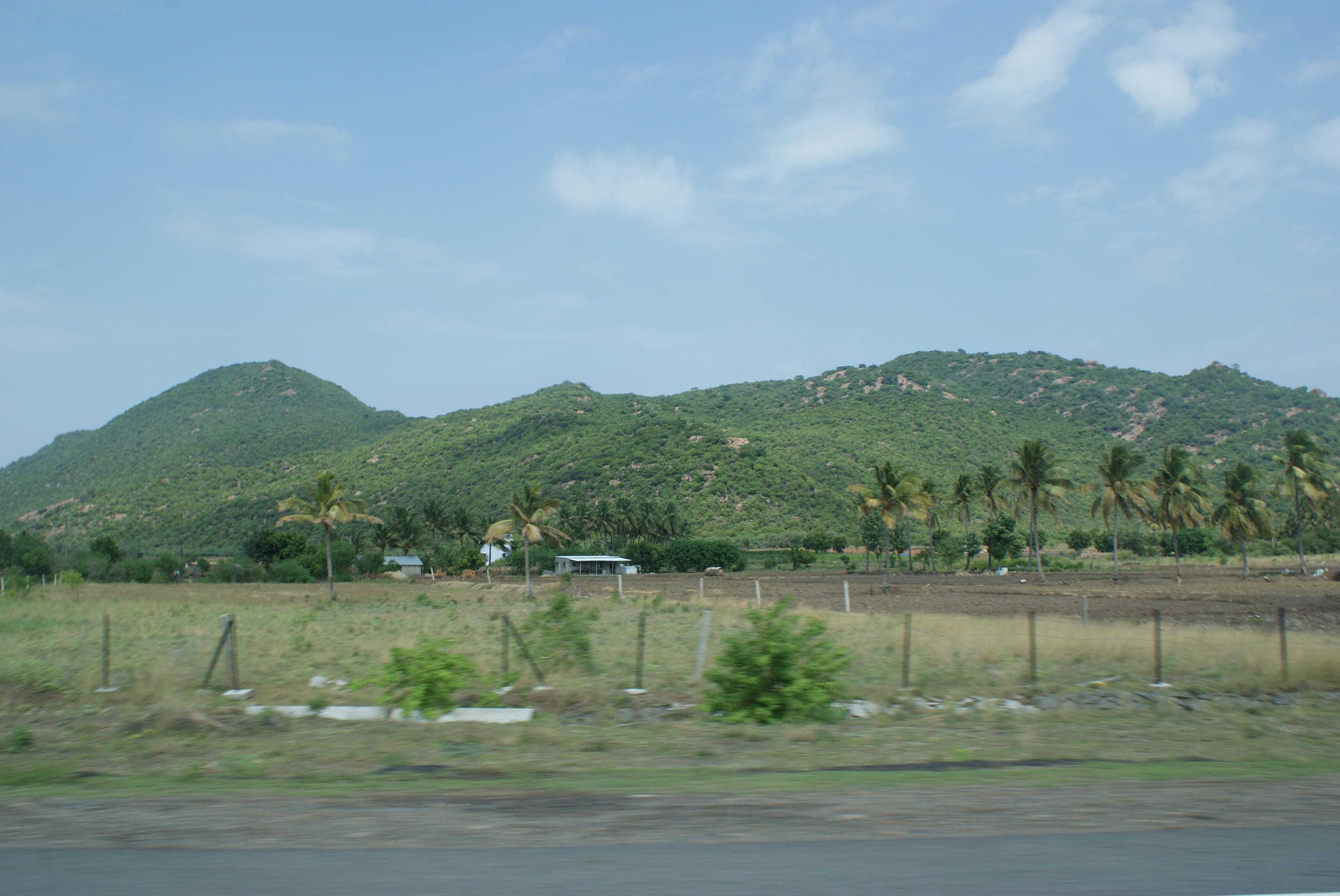 On National Highway 45 near Perambalur, Tamil Nadu, India.